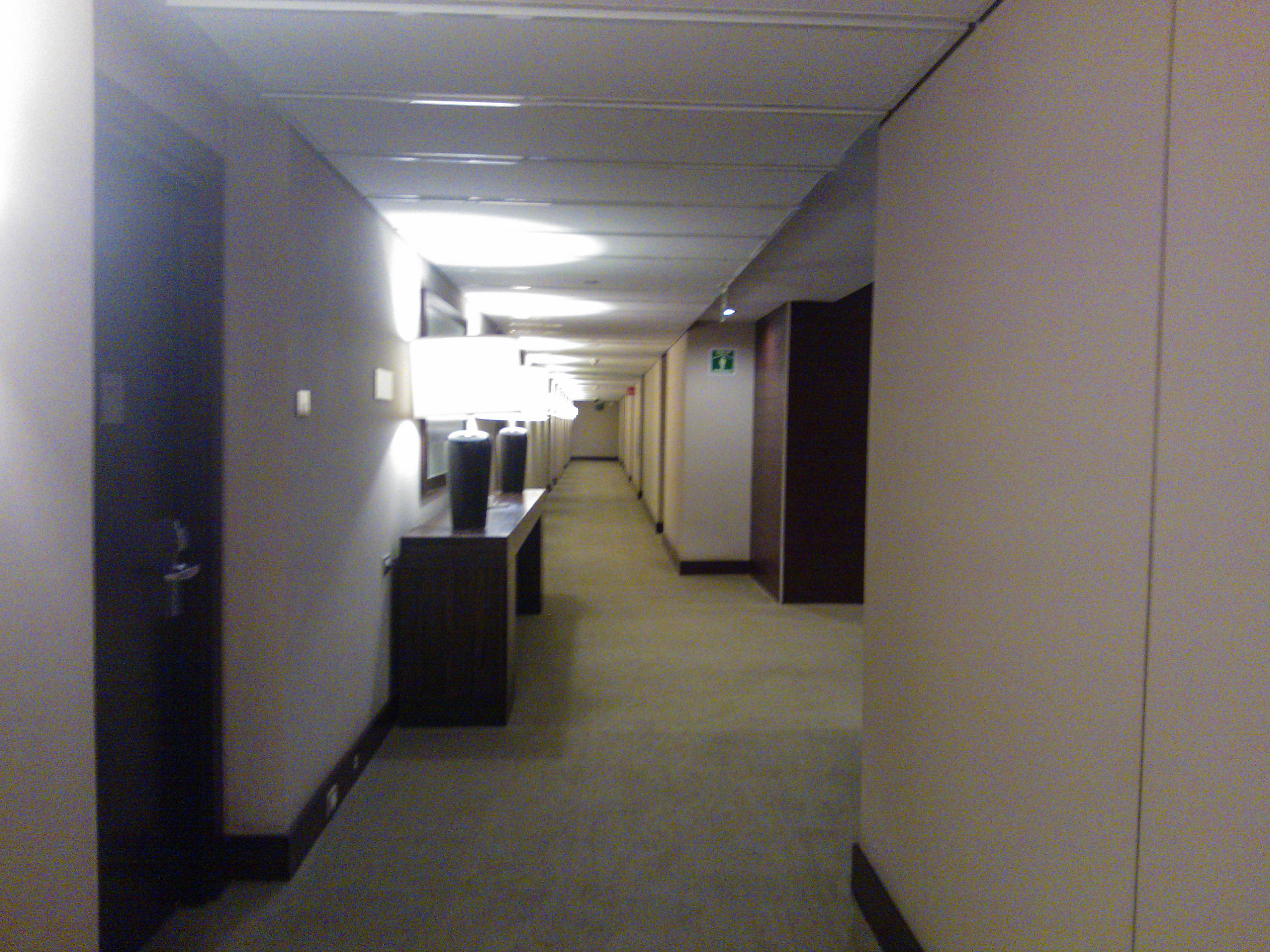 Hilton Mexico City Reforma.